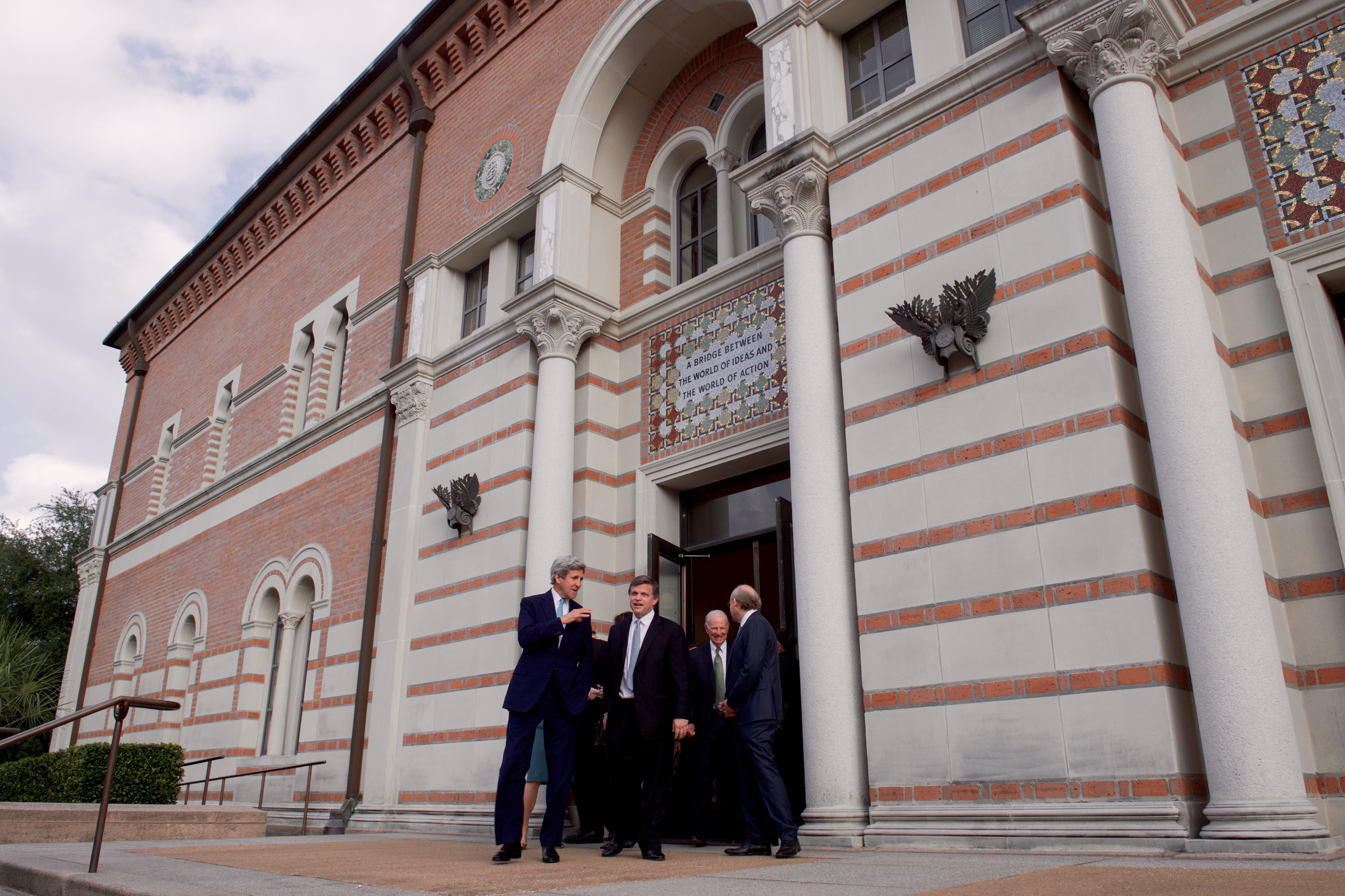 U.S. Secretary of State John Kerry walks with Rice University historian Douglas Brinkley across the Rice campus before Secretary Kerry delivered a speech about the intersection of religion and foreign policy on April 26, 2016, during a visit to Rice’s Baker Institute in Houston, Texas. [State Department photo/ Public Domain]